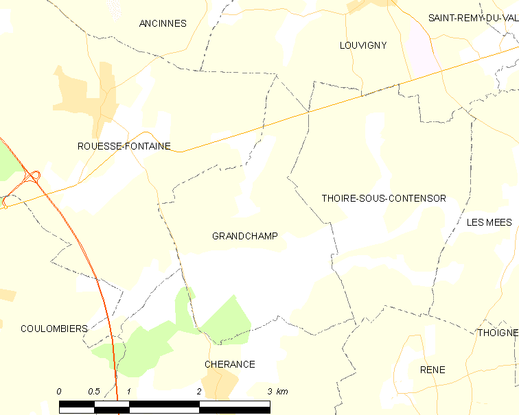 Map of French municipality